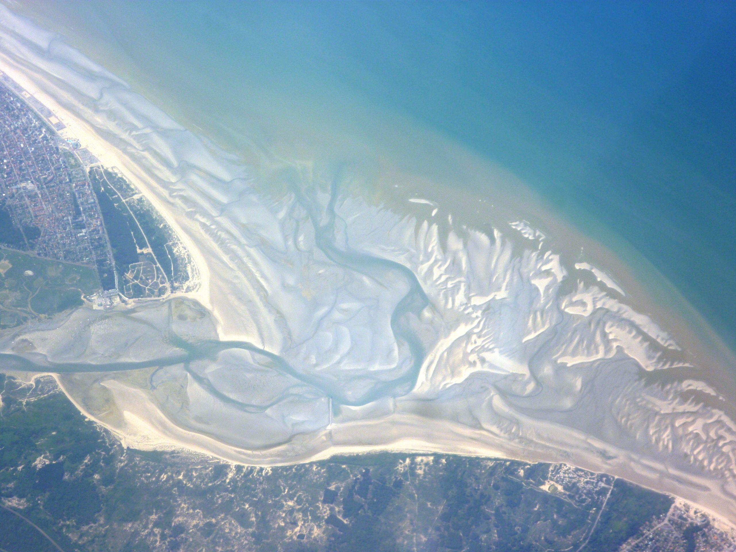 Mouth of the River Canche with Le Touquet on its left bank.